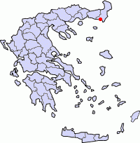 locator map, based on Image:Prefectures Greece grey.png